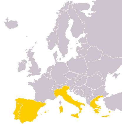 Map of Southern Europe